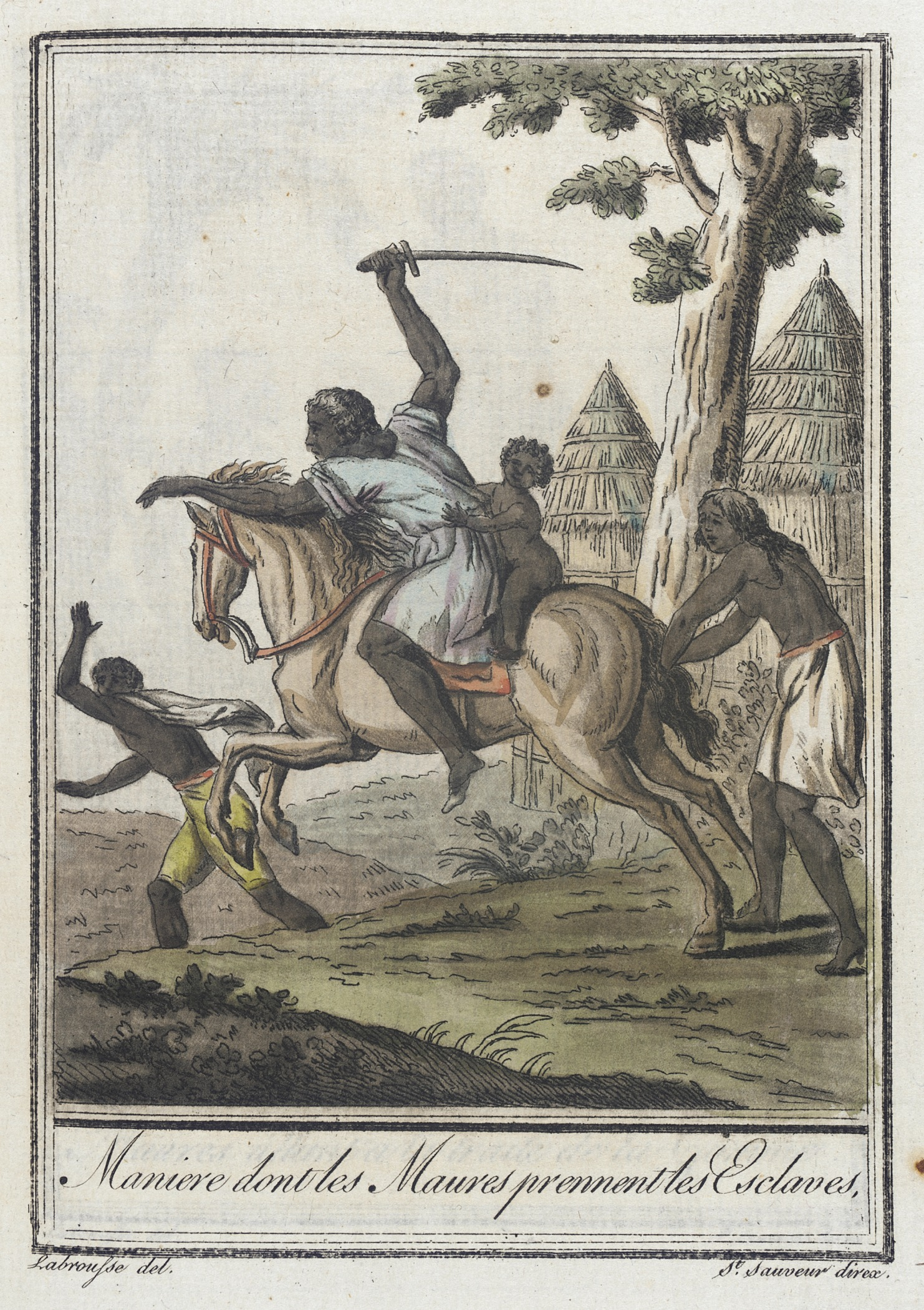 France, circa 1797 Prints; engravings Hand-tinted engraving on paper Sheet: 10 x 7 3/4 in. (25.4 x 19.69 cm); Composition: 7 1/2 x 5 3/8 in. (19.05 x 13.65 cm) Costume Council Fund (M.83.190.278) Costume and Textiles